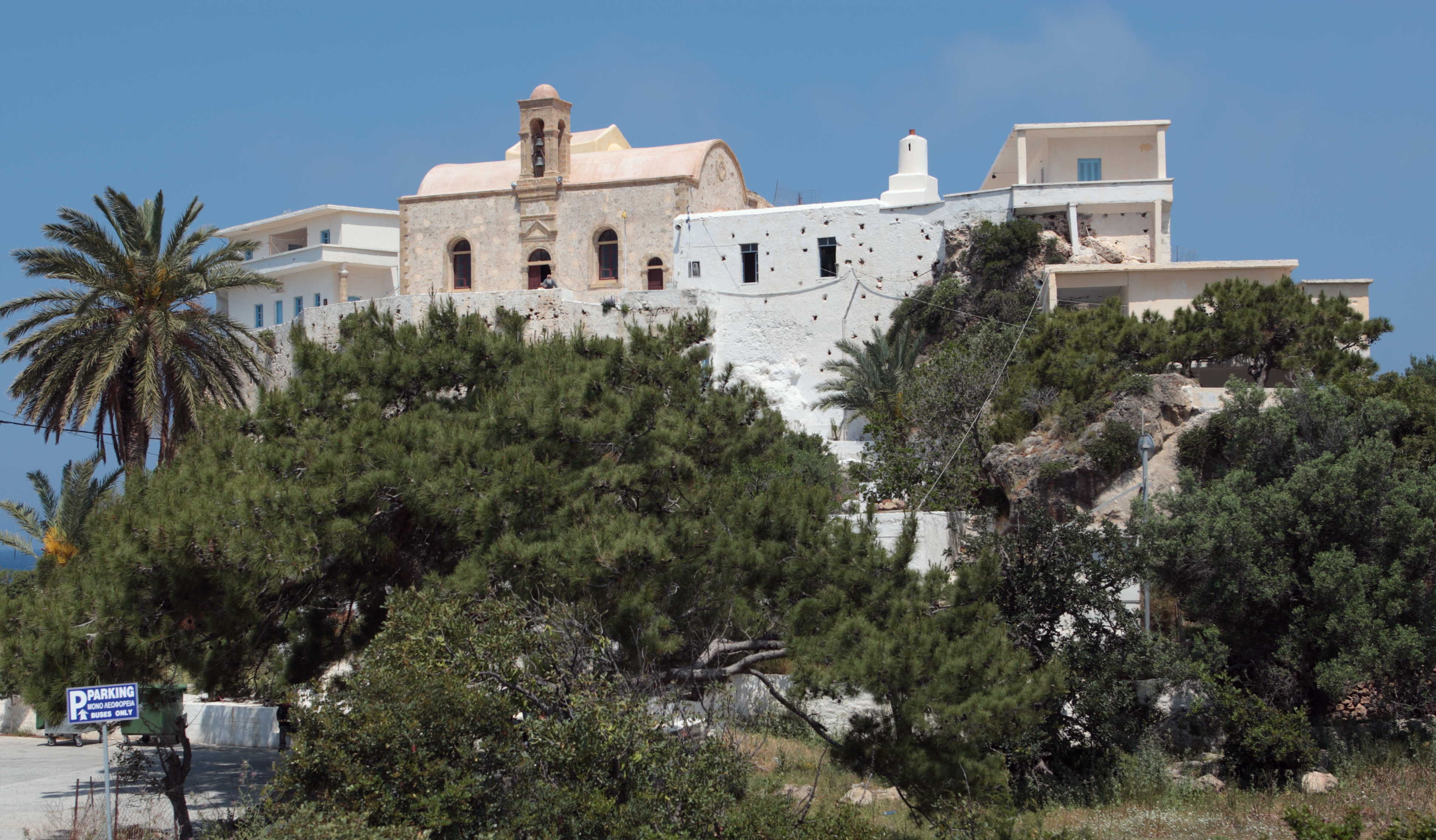 The Chrysoskalitissa Monastery ( Crete )